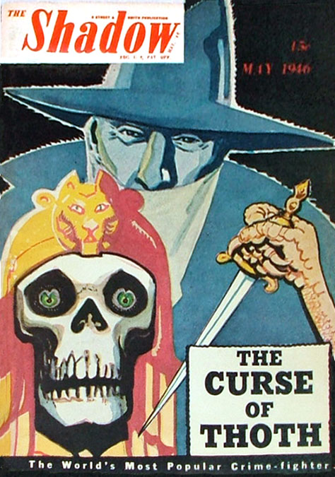 The Shadow, May 1946. Cover by Charles Coll.